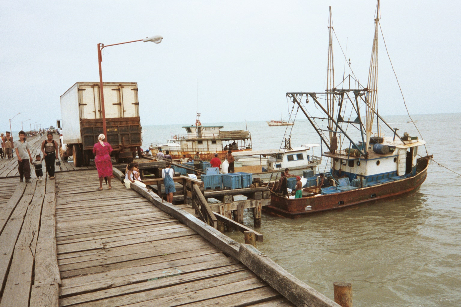 A pier in Puerto Cabezas, a Nicaraguan port city on the Atlantic coast